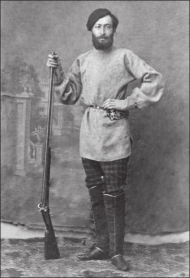 Aleksandre Kazbegi as an actor